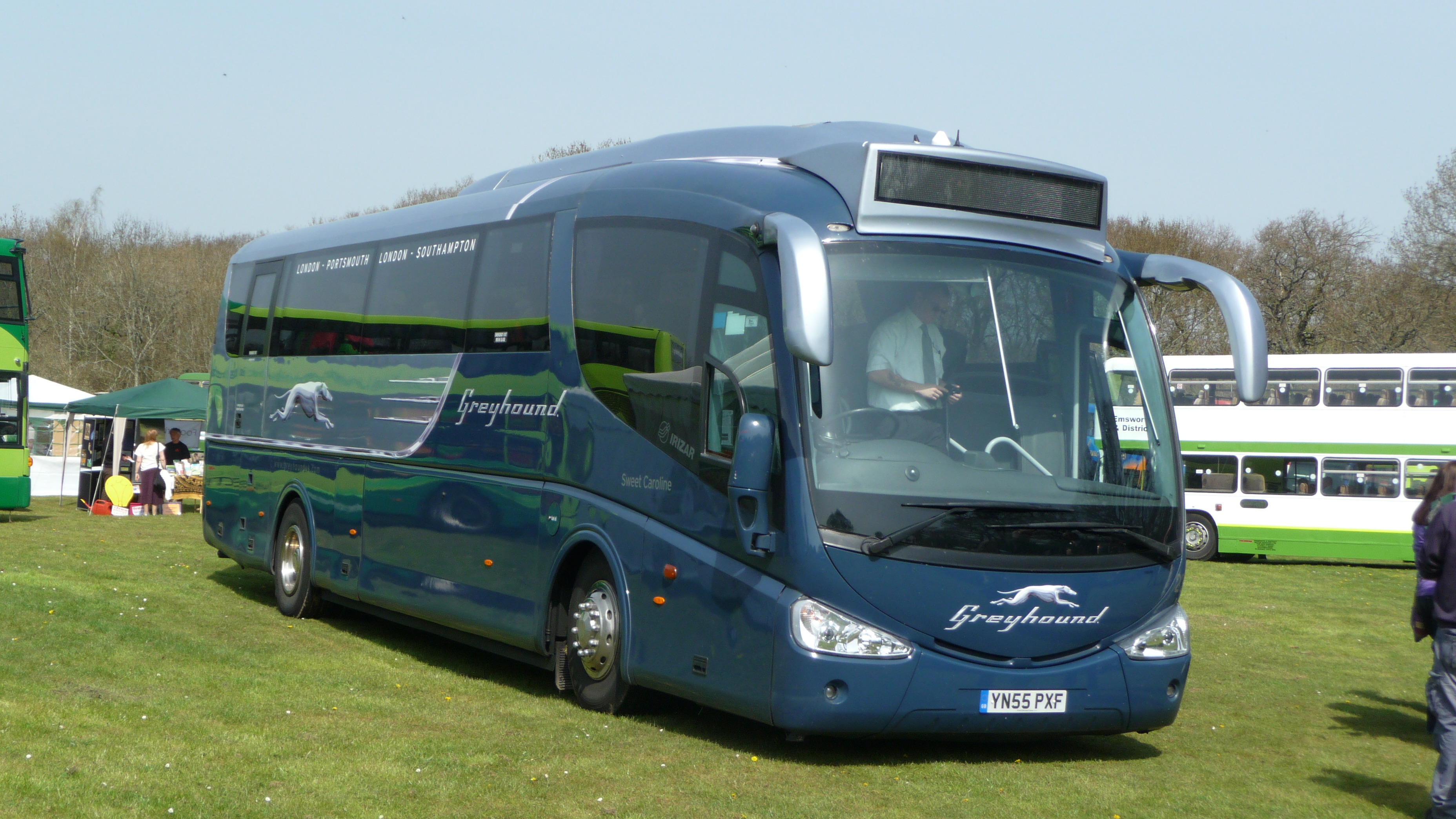 Seen at the 2010 Bustival event, held by Southern Vectis, at Havenstreet, Isle of Wight, railway station showground. Greyhound UK 23315 Sweet Caroline (YN55 PXF), a Scania K114EB/Irizar PB coach. Southern Vectis offer a ticket promotion with Greyhound coaches, hence the attendance of the vehicle at the event. The coaches feature extra legroom and leather seats. For the record: The coach got stuck on the level crossing whilst trying to enter the showground.